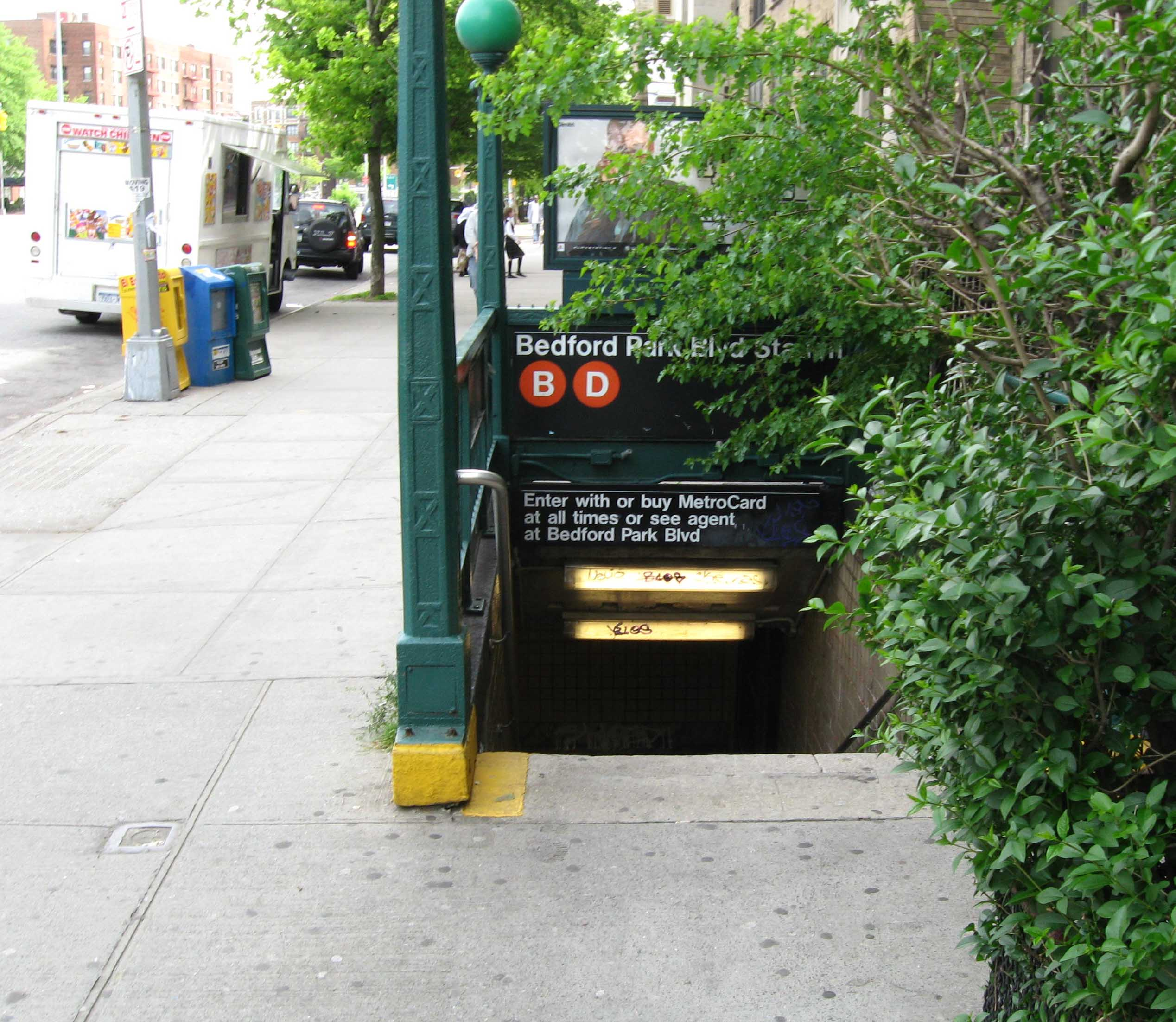 Possibly looking south on Grand Concourse at northwestern stair down to Bedford Park Boulevard (IND Concourse Line) on a cloudy afternoon.